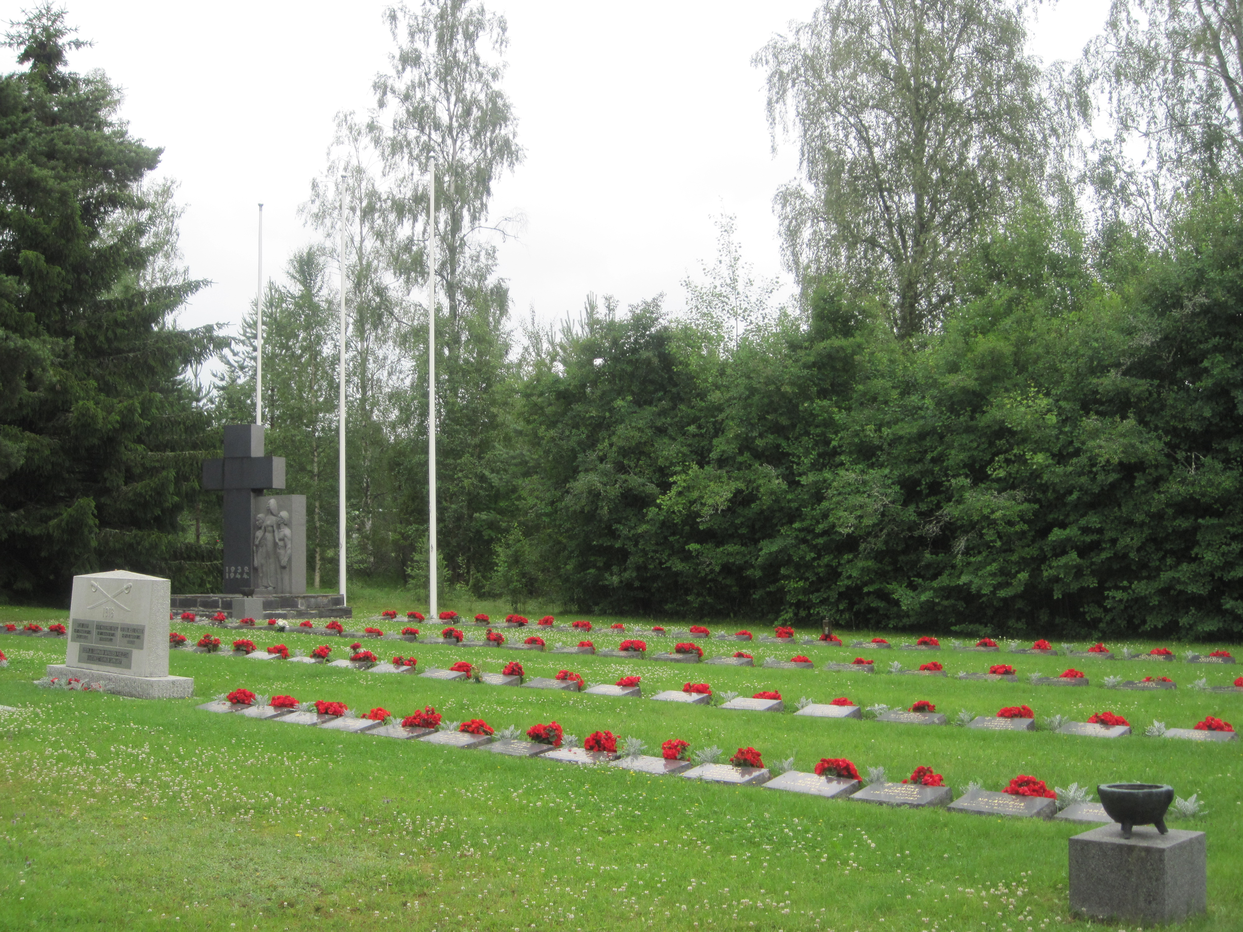 Military cemetary at church in Kihniö, Finland